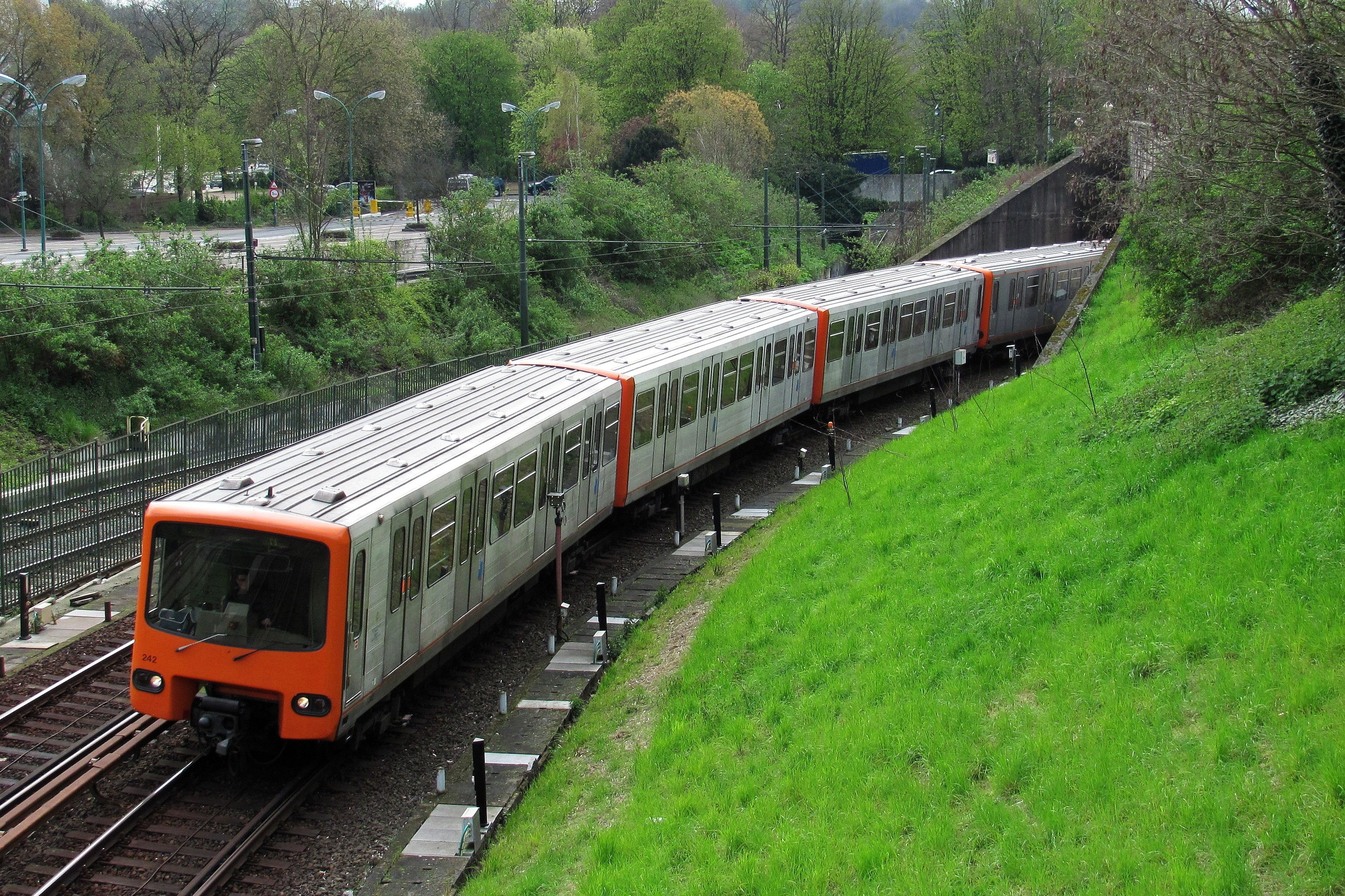 Type U2/U3 reaches Heizel/Heysel station.